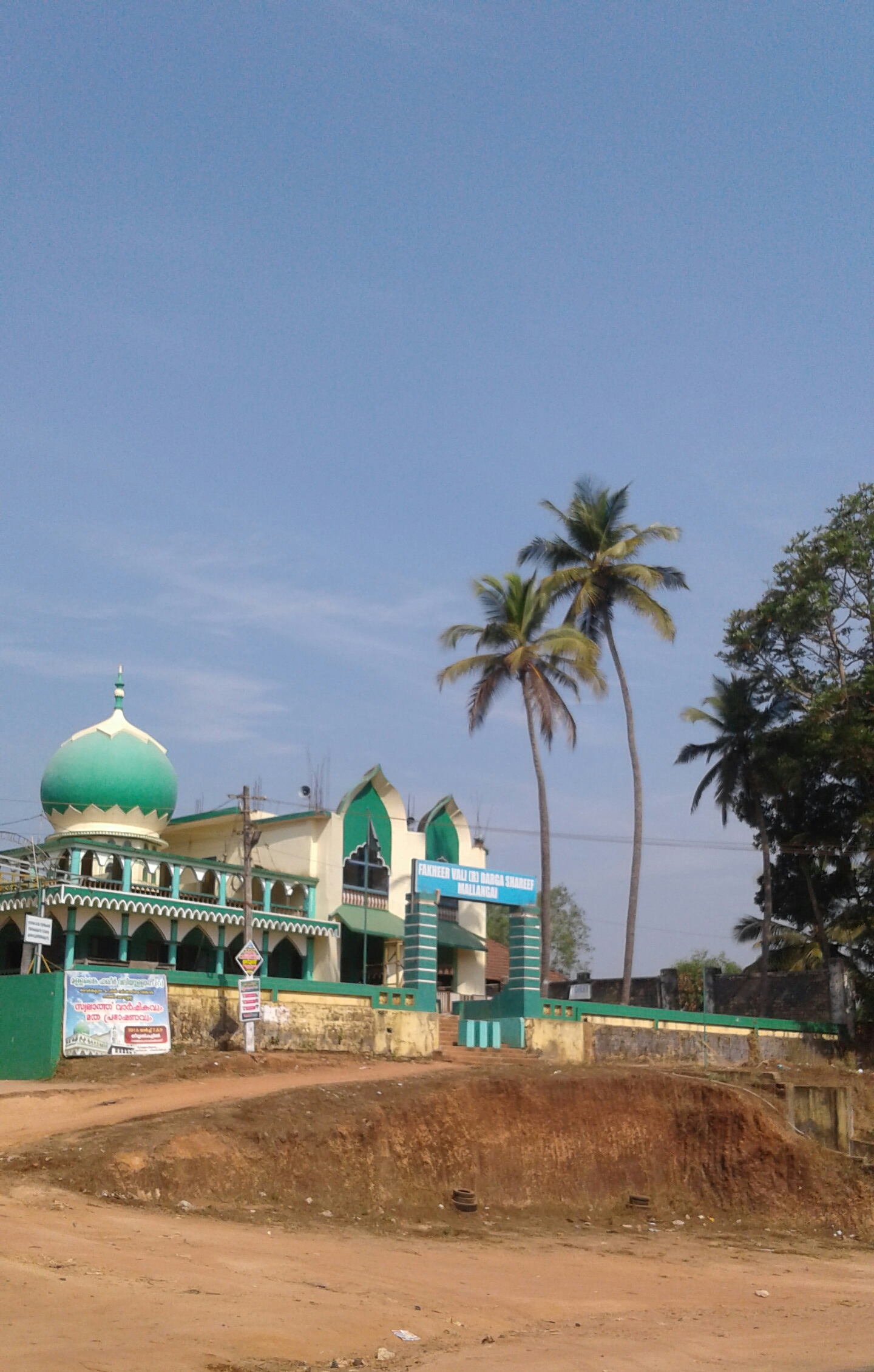 Kasaragod district, Kerala state, India.